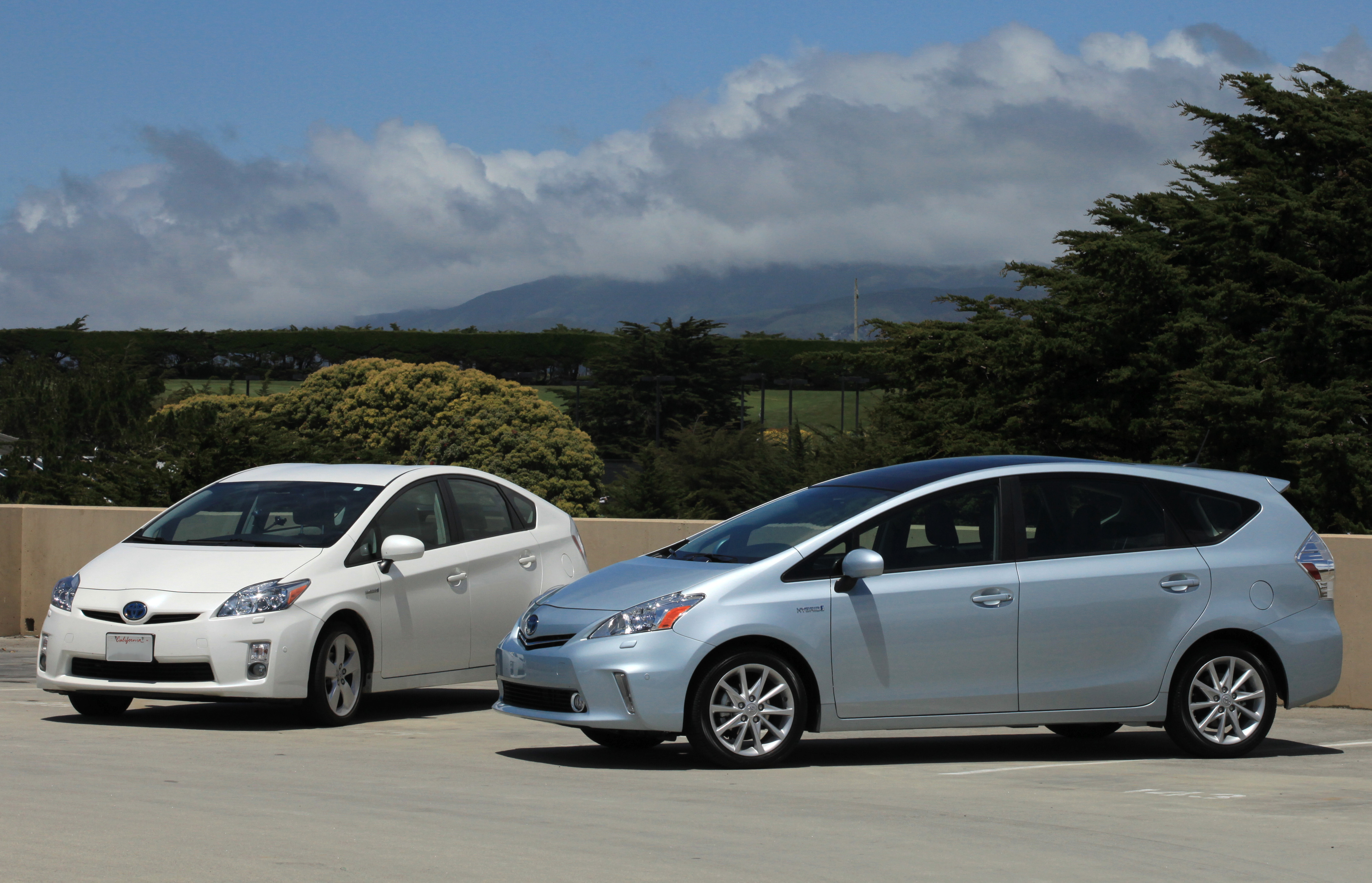 Here's photos of the new Toyota Prius V (coming in late 2011) next to my 2010 Toyota Prius.